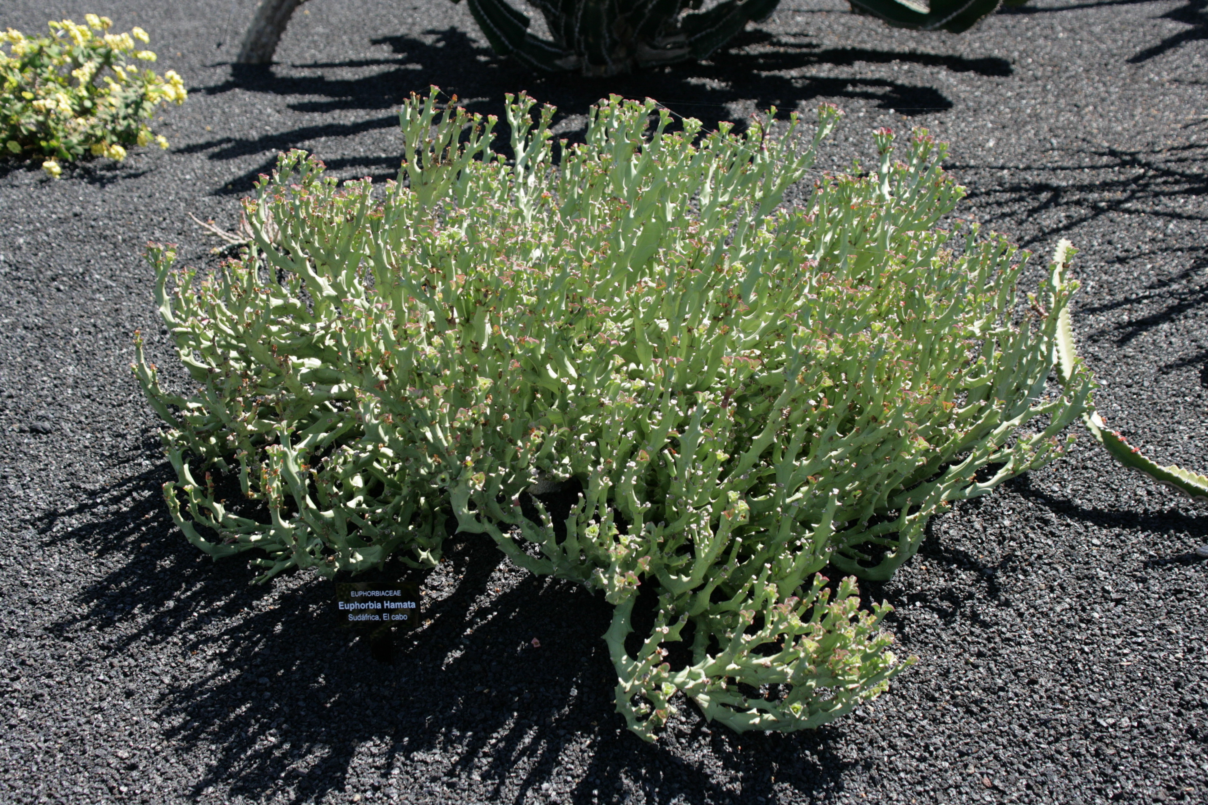 Euphorbia hamata grown in the Botanical Garden “Jardin de Cactus” in Guatiza, Teguise, Lanzarote, Canary Islands